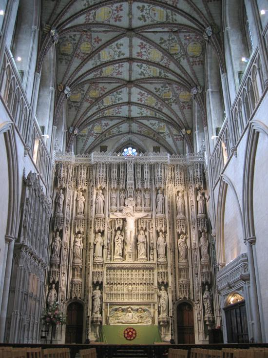 Wallingford Screen, St Albans Cathedral